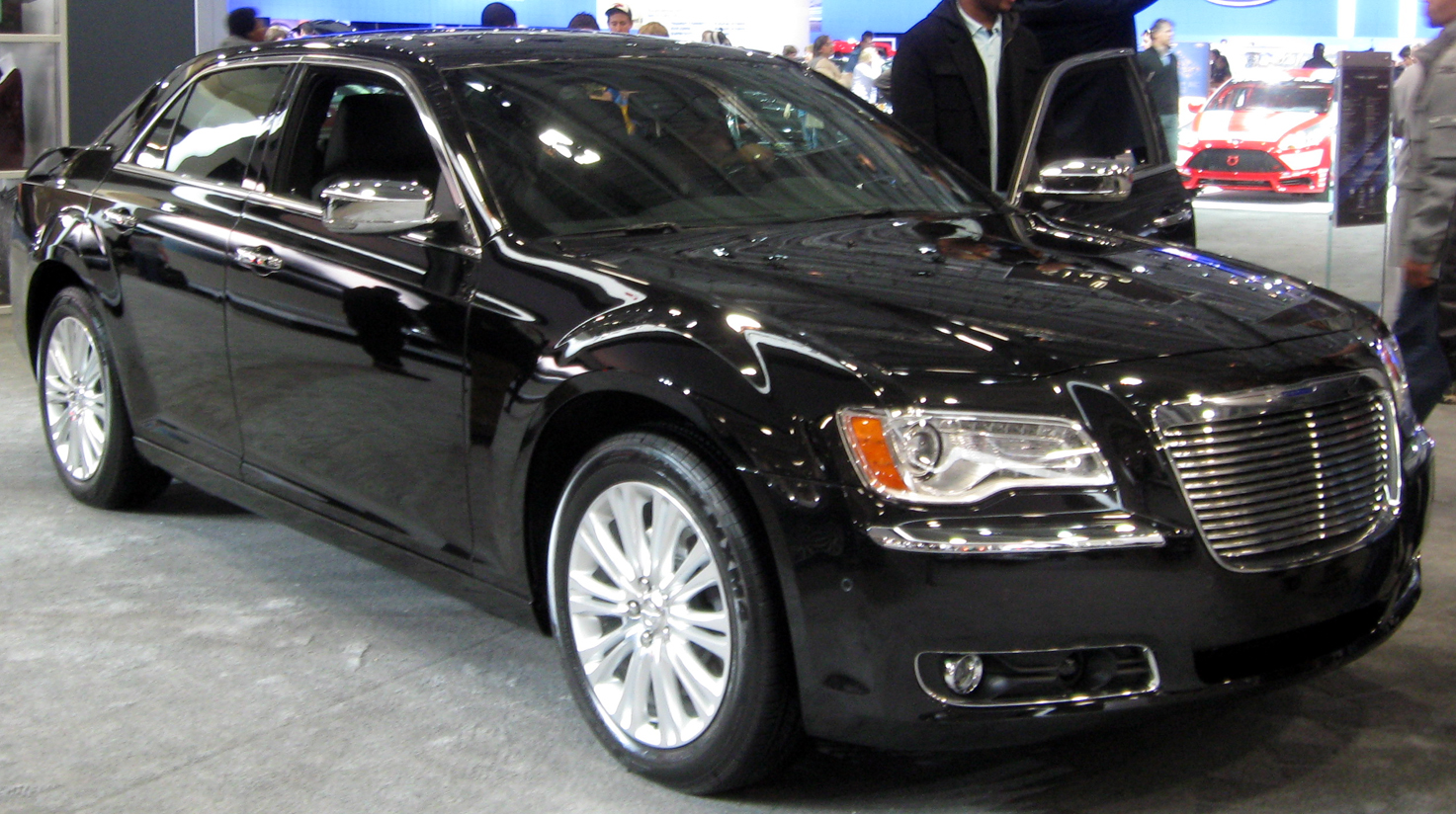 2011 Chrysler 300C photographed at the 2011 Washington (D.C.) Auto Show.